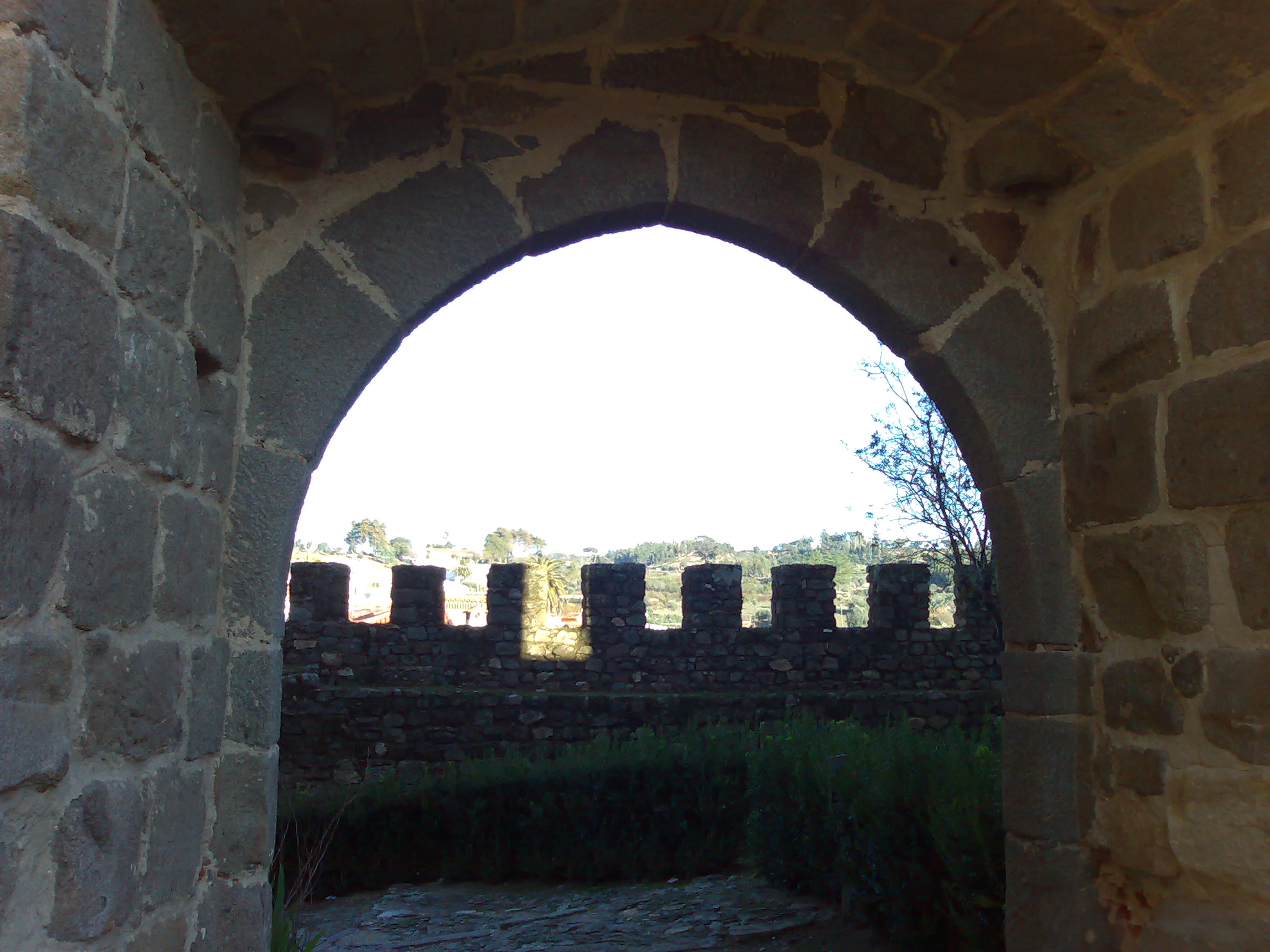 Walls and door of the Amieira castle, Amieira do Tejo, Nisa, Portugal.